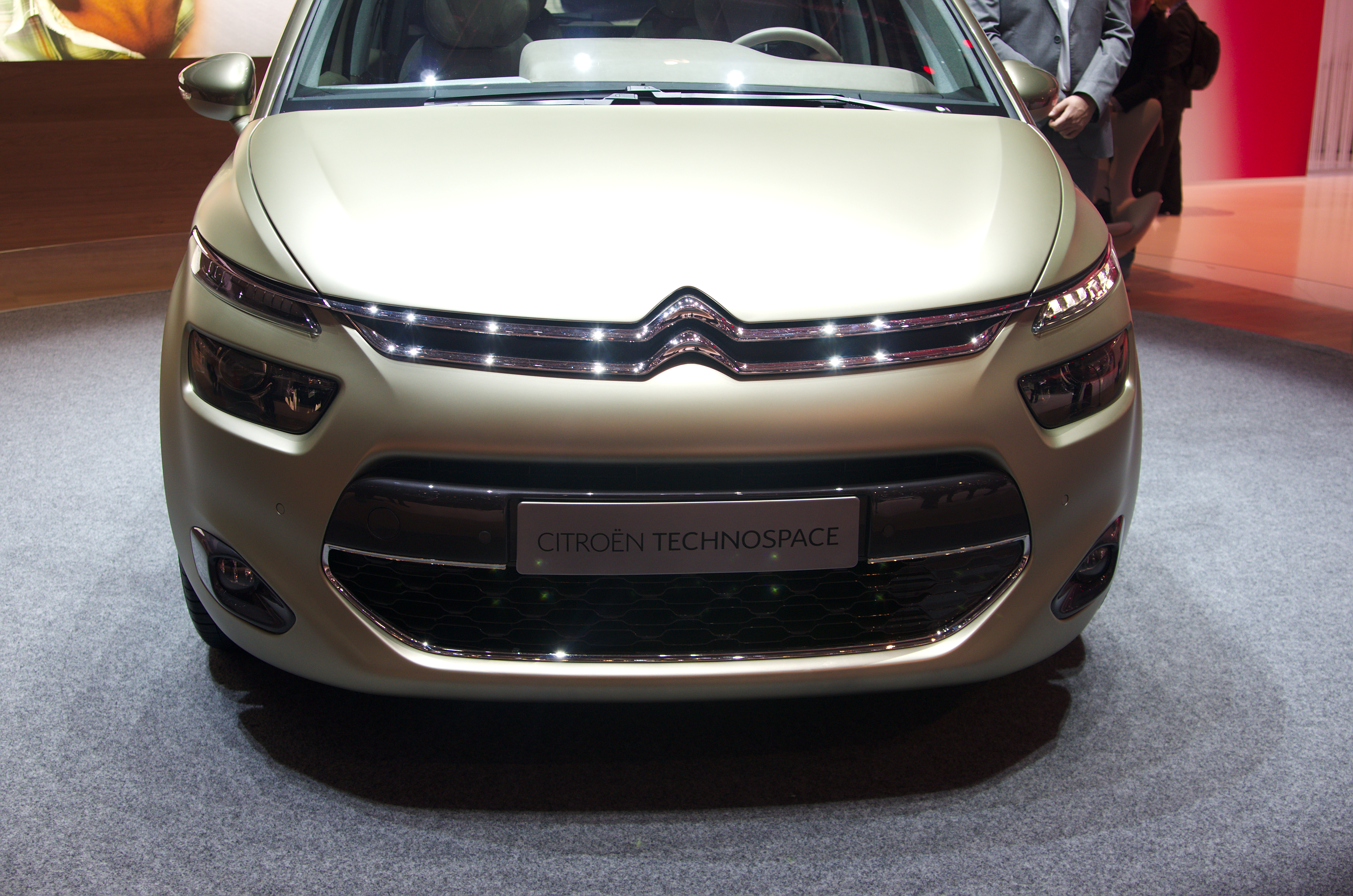 Geneva MotorShow 2013 - Citroen technospace front